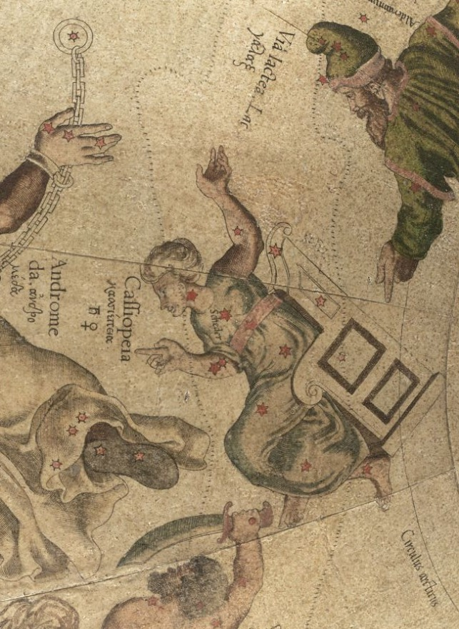 Cassiopeia constellation from the Mercator celestial globe.